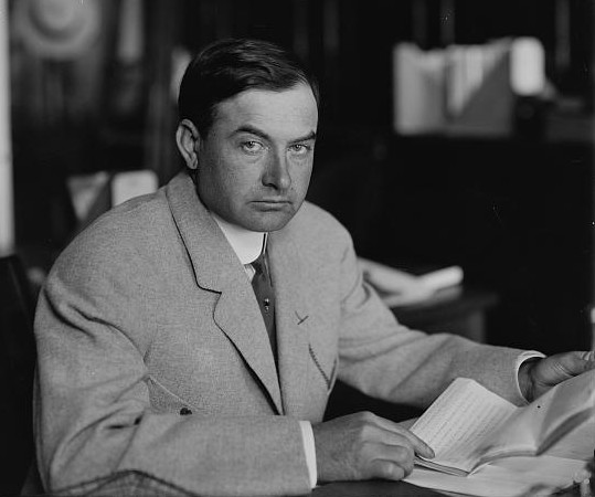 Ralph Dayton Cole (1873 - 1932), U.S. Representative from Ohio